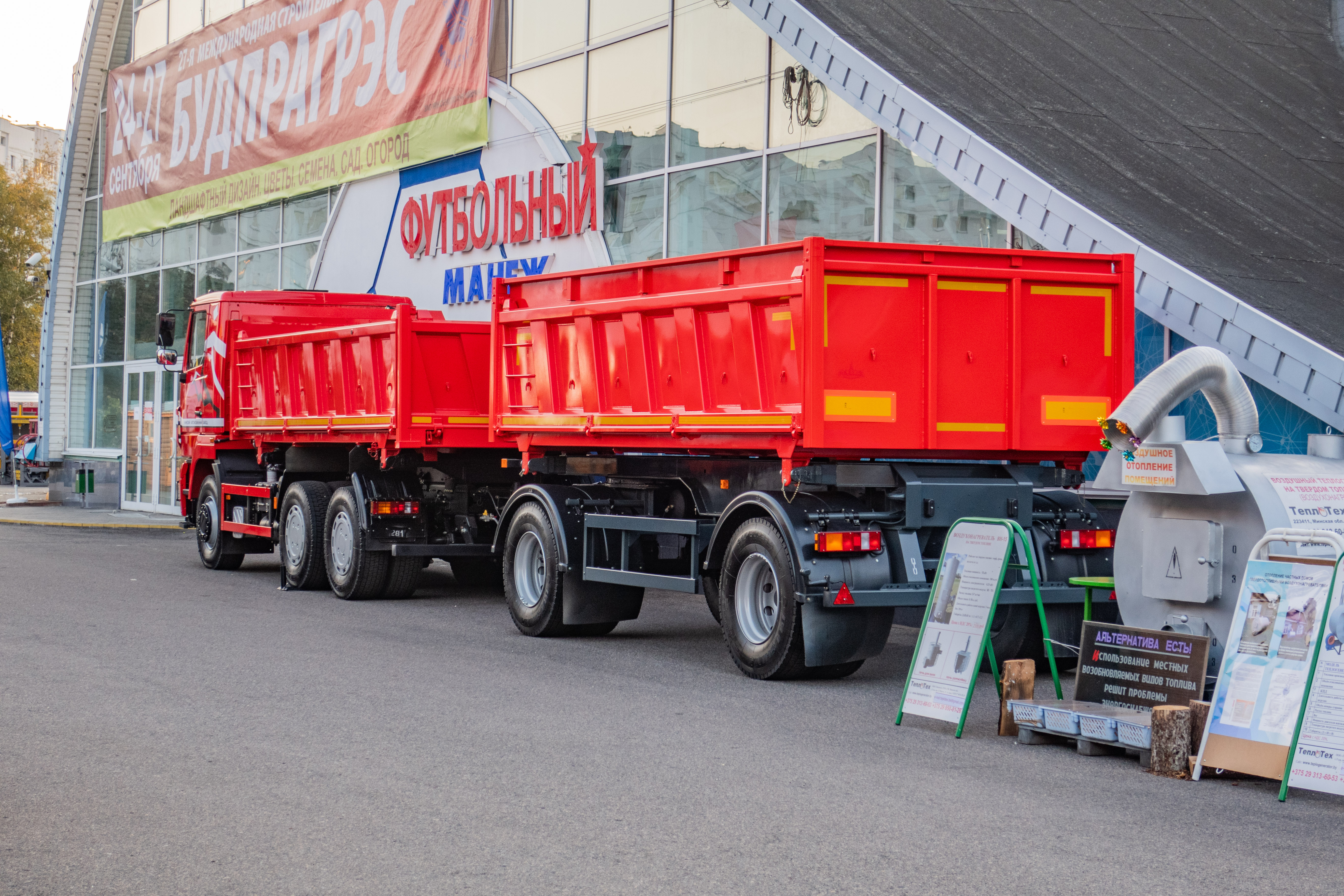 MAZ-6501C9 truck. "Budpragres-2019" exhibition, Minsk, Belarus